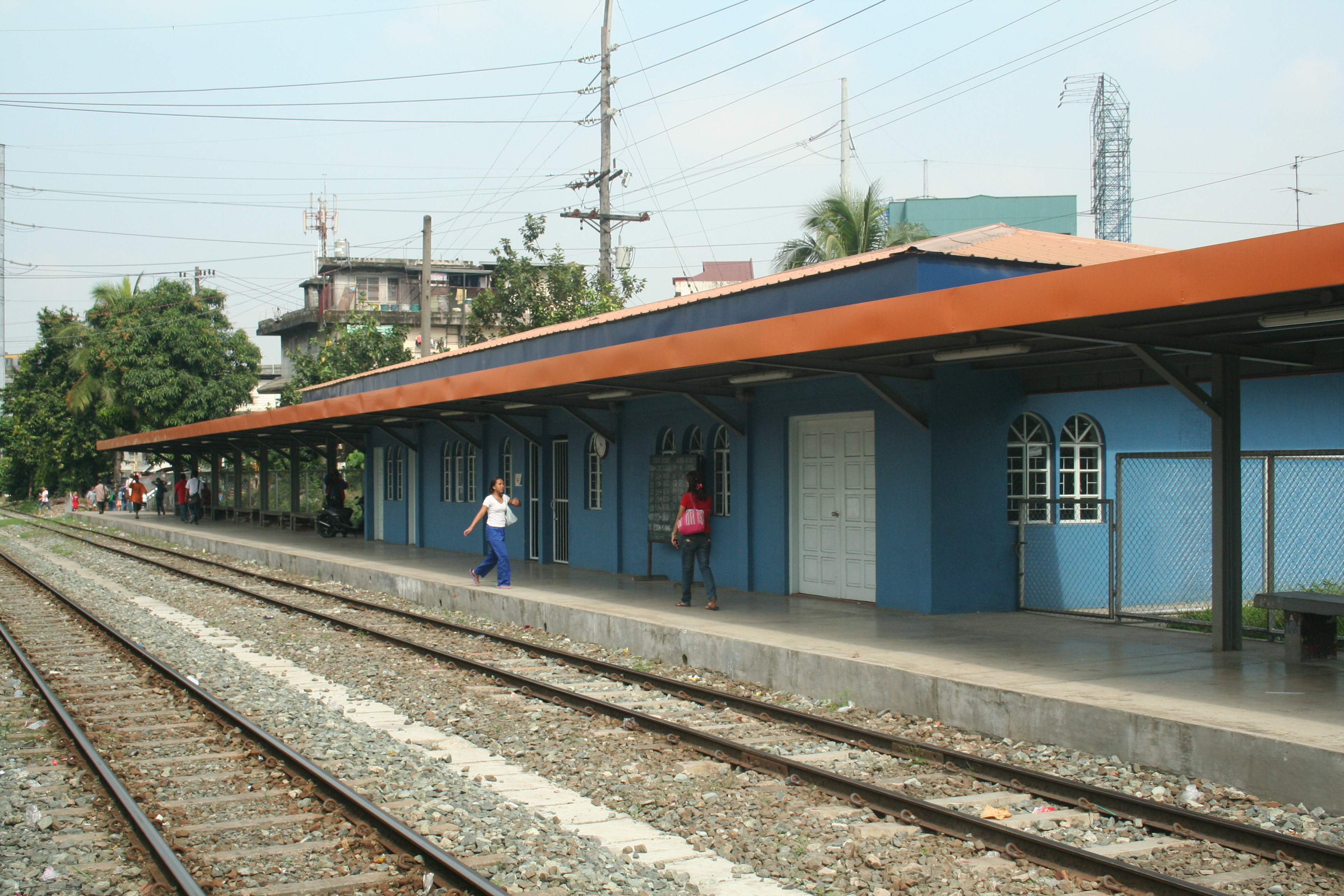 Trackside view of the entrance to Santa Mesa railway station. The building is built on one of two of the station's original platforms, which are designed to accommodate locomotive-hauled trains. Further right (not visible) are raised platforms for the use of newer Philippine National Railways diesel multiple units.